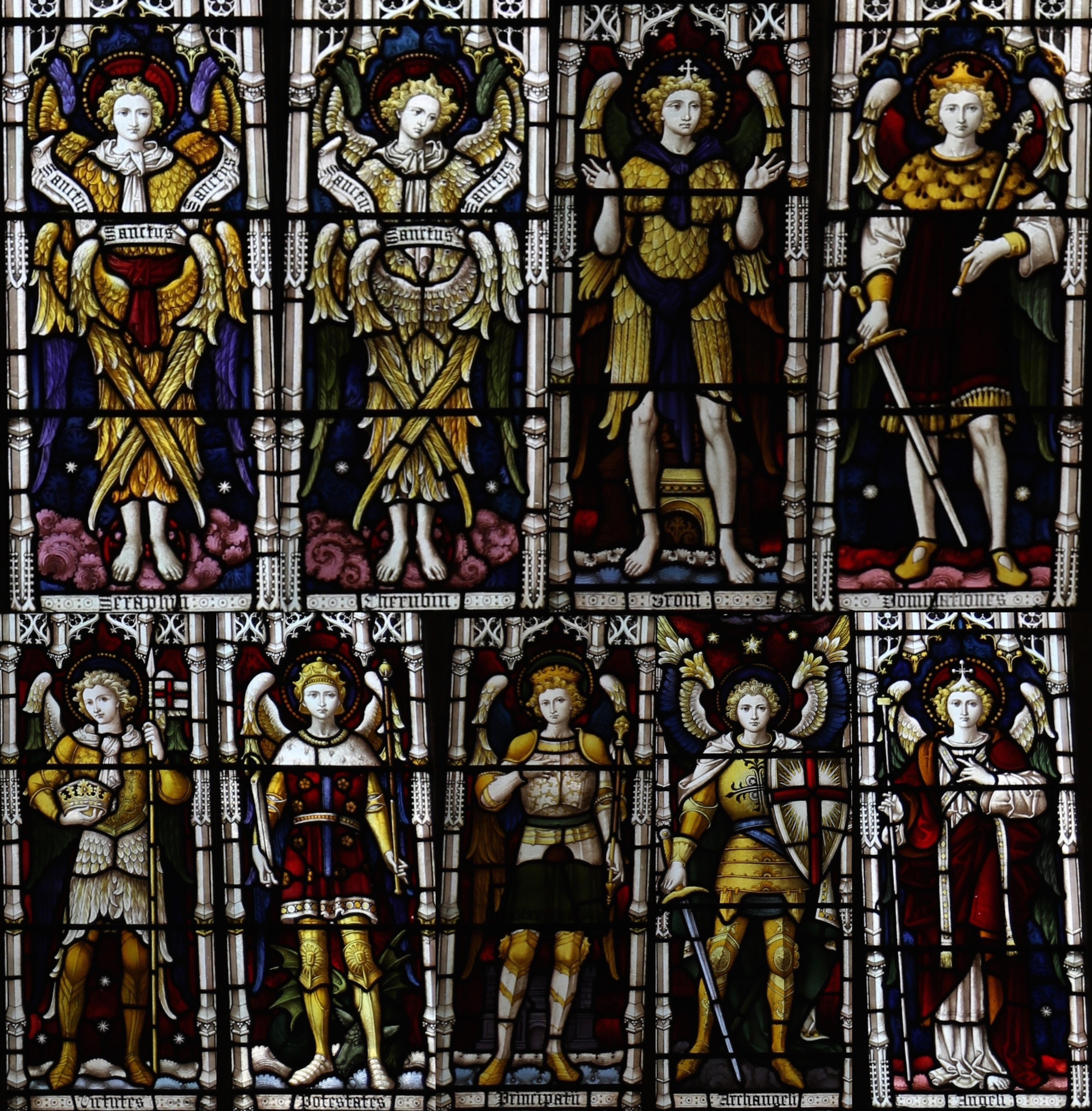 Nine angelic figures depicted on the west window of the Church of St Michael and All Angels in Somerton, which represent the nine ranks of angels. From left to right, first row: Seraphim, Cherubim, Thrones, and Dominions; second row: Virtues, Powers, Principalities, Archangels, and Angels.